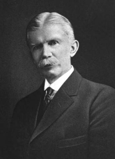 Portrait of Samuel Hoyt Venable from Appleton's Cyclopædia of American Biography, Volume X, 1924, pages 126–127